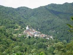 Topolò, municipality of Grimacco/Garmak, province of Udine, Friuli-Venezia Giulia, Italy.